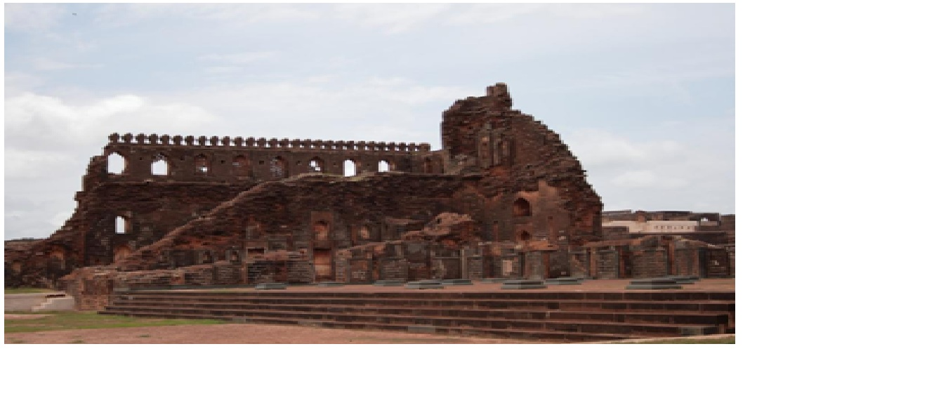 This is the picture of the remnants of Diwan-i-am